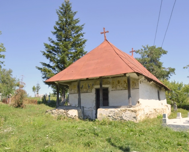 Wooden church in Mălărișca, Mehedinți county, Romania